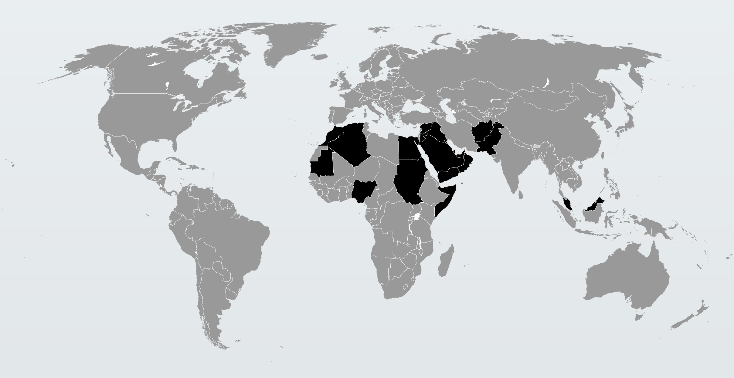 Countries that as of 2015 have the death penalty for atheism.